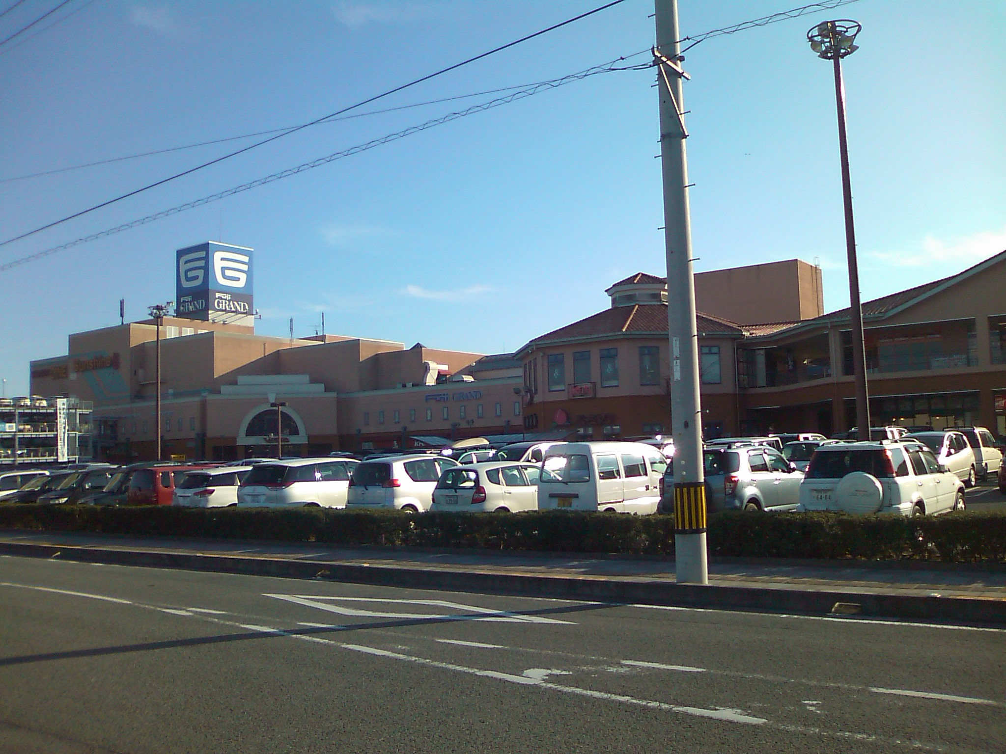 Fuji GRAND KITAJIMA, a shopping mall in Japan